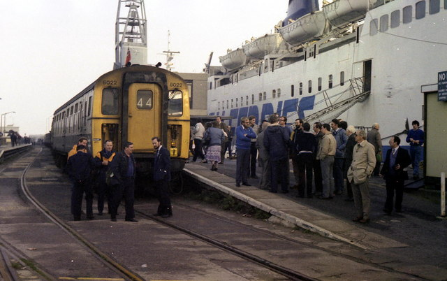 Weymouth Quay railway station Original description: Weymouth Quay Station Weymouth Quay station was the terminus for boat trains from Waterloo. It was closed in 1987 but still exists. In this 1986 view, a special train stands at the station.